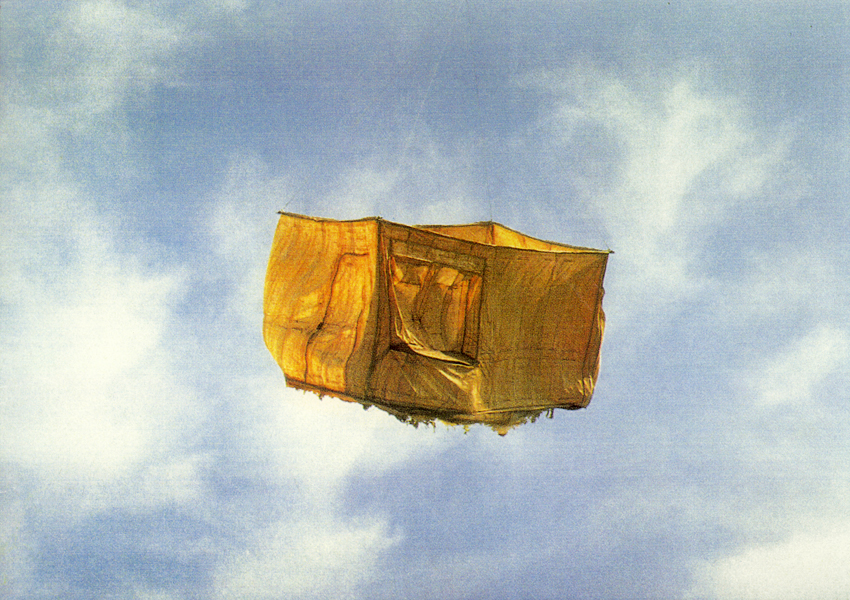 Heidi Bucher, Fliegender Hautraum (Ahnenhaus), ca. 1980–1982, Winterthur, Photo Andreas Schwarber 1980